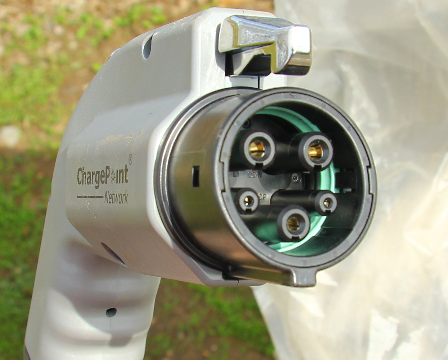 SAE J1772 plug (cropped from the original photo)